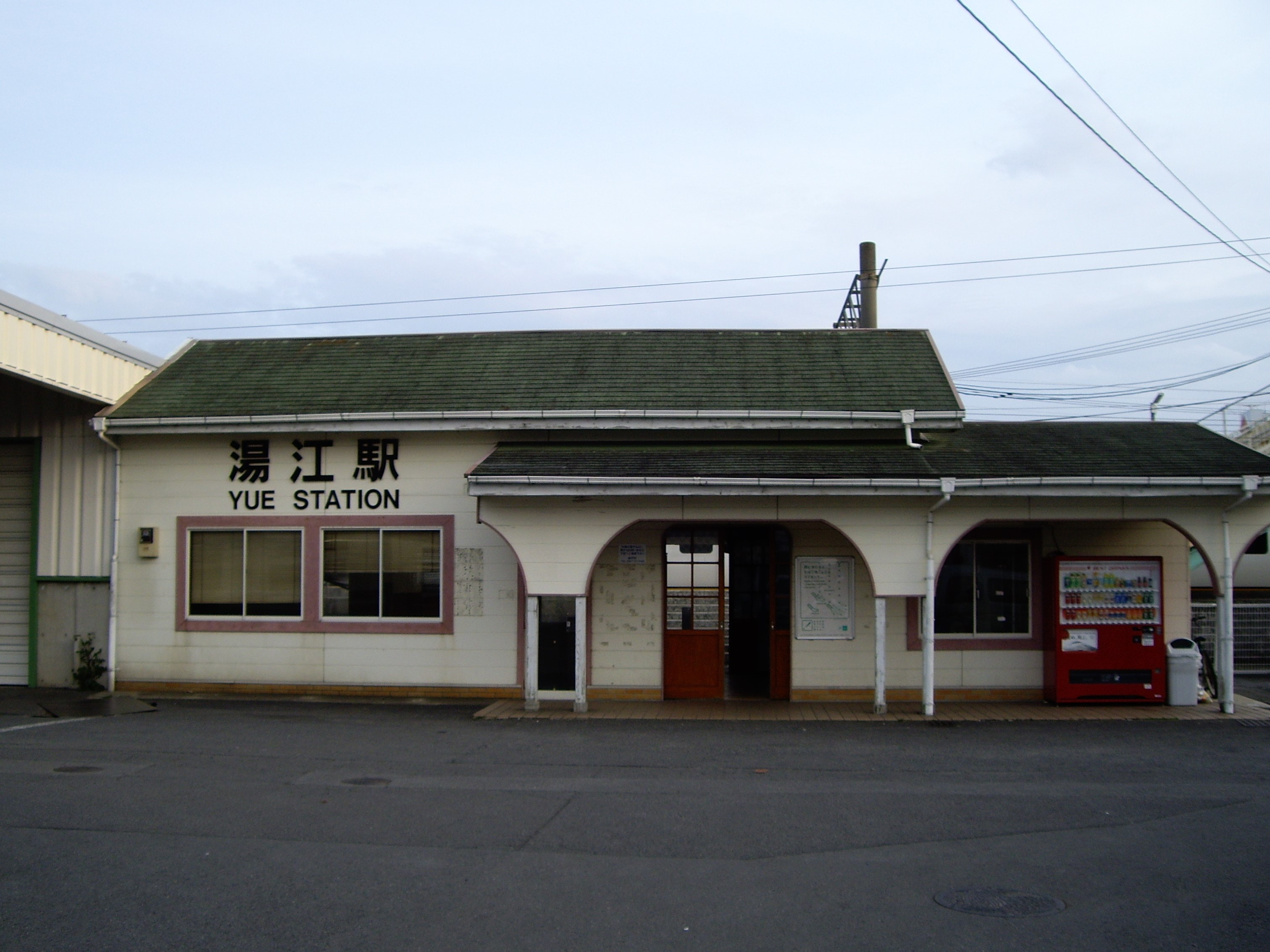 Yue Station